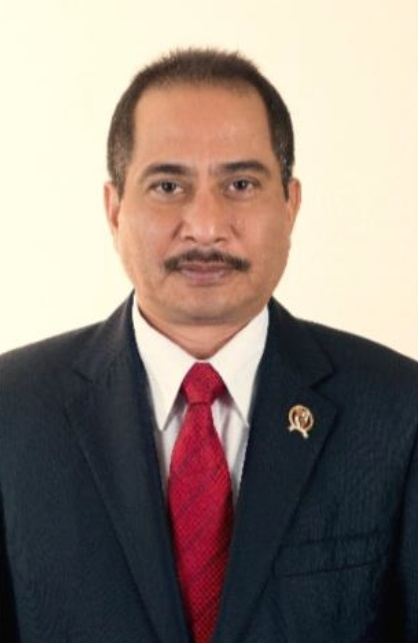 Arief Yahya as Minister of Tourism. Taken from 2016 Performance Report of Ministry of Tourism